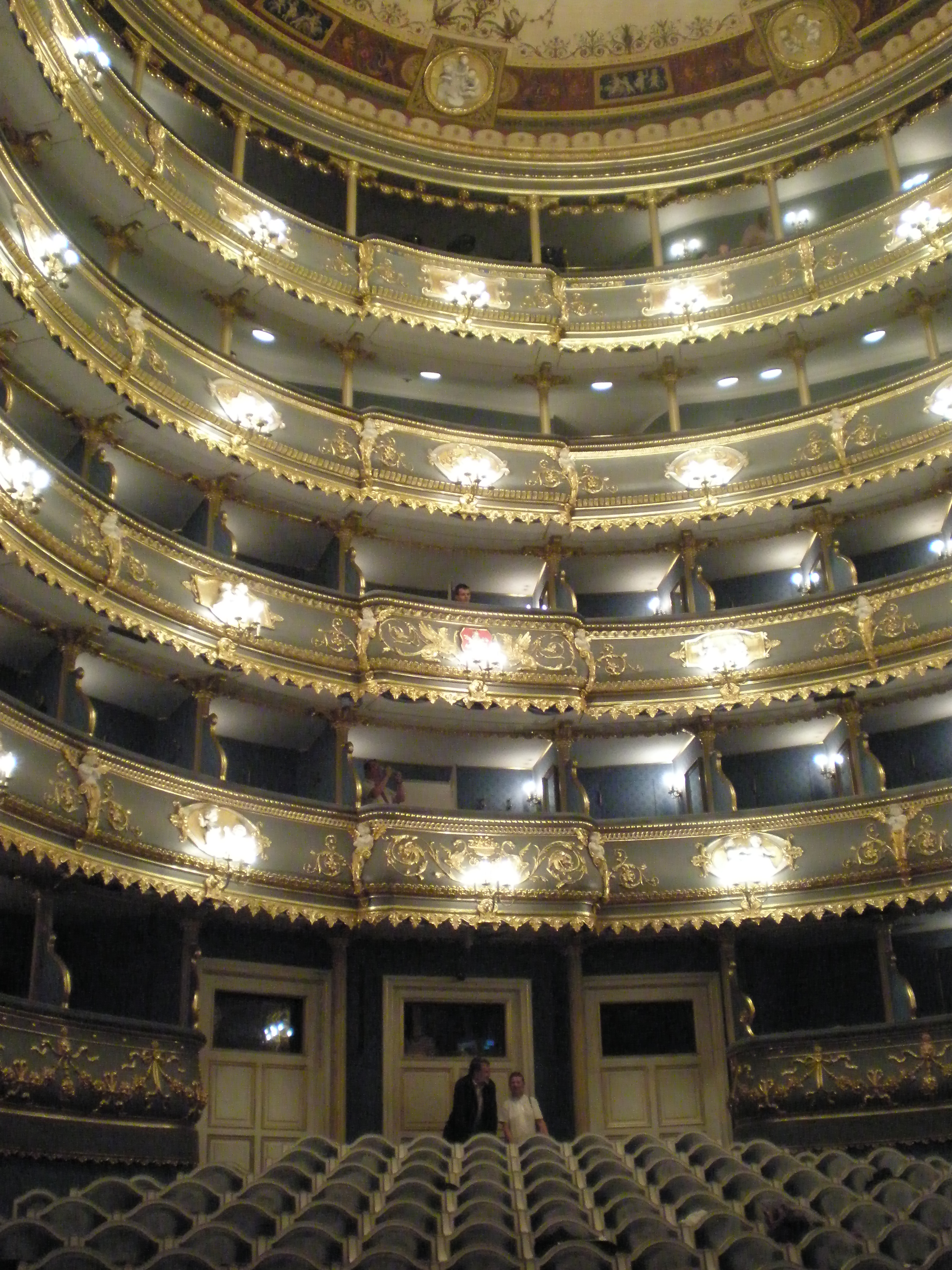 Prague Estates Theatre. View of the auditory